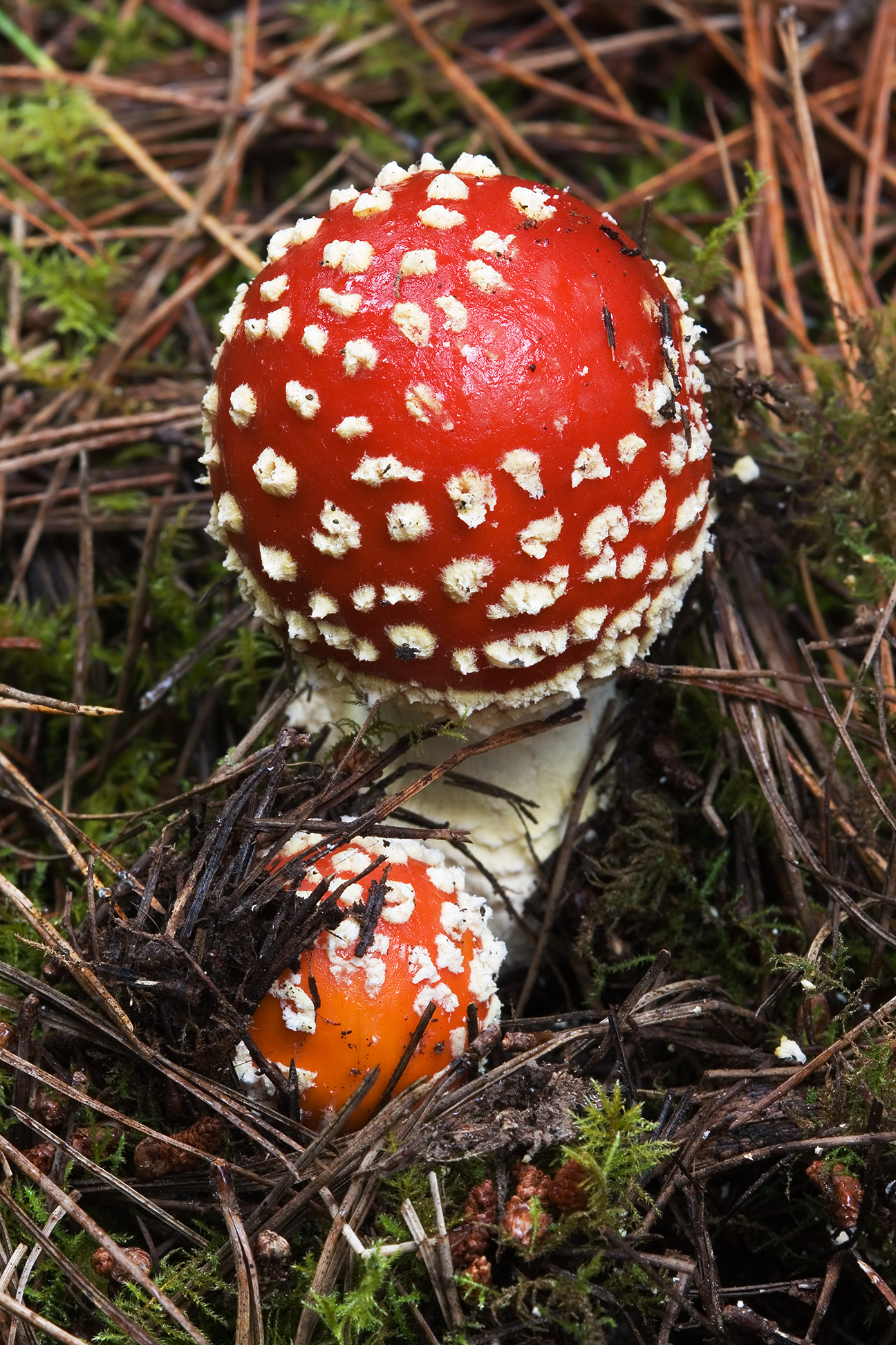 Amanita muscaria Buttons, Mt Field National Park, Tasmania, Australia Camera data Camera Canon EOS 400D Lens Tamron EF 180mm f3.5 1:1 Macro Flash Umbrella Right Focal length 180 mm Aperture f/11 Exposure time 1/8 s Sensivity ISO 100